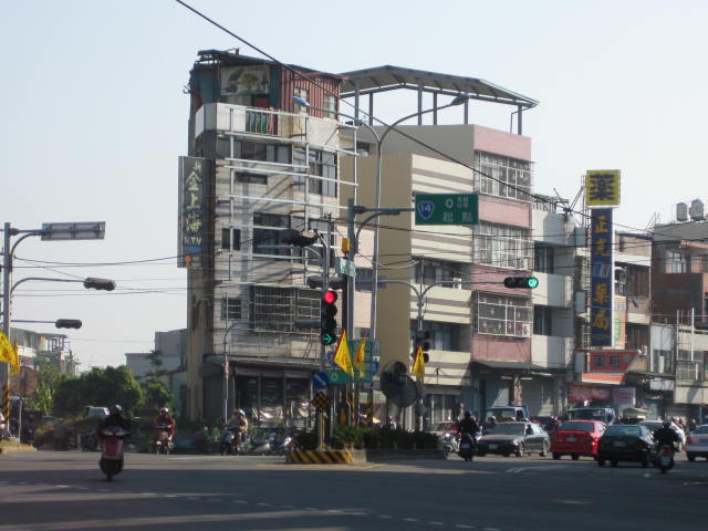 The beginning of Taiwan Provincial Highway No. 14 at Jhungzhangzi,Changhua City,Changhua County,Taiwan.